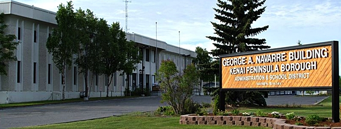 The George A. Navarre Building in Soldotna, Alaska, home to the administrative offices of the Kenai Peninsula Borough and the borough's school district.